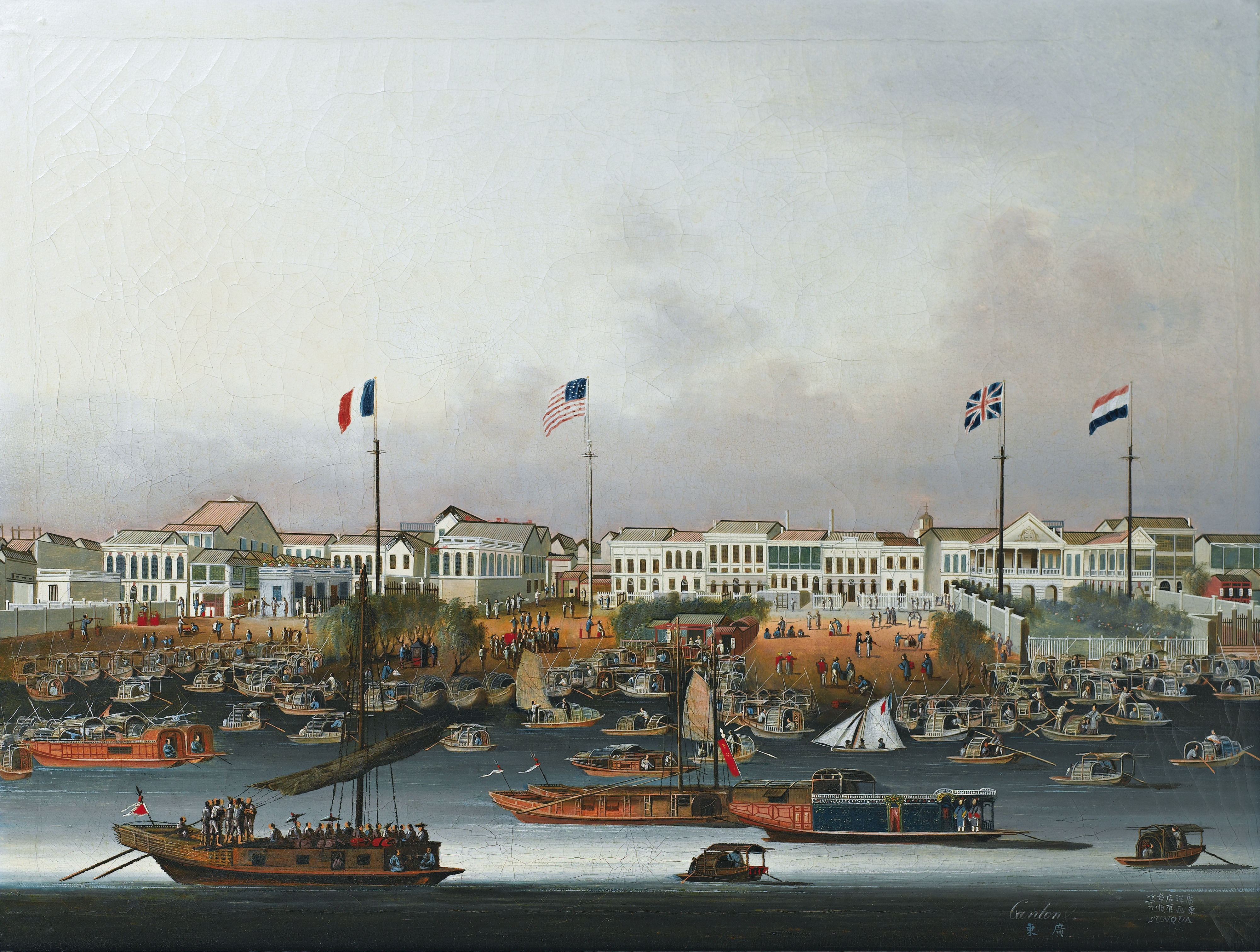 Oil on canvas of the port of Canton.